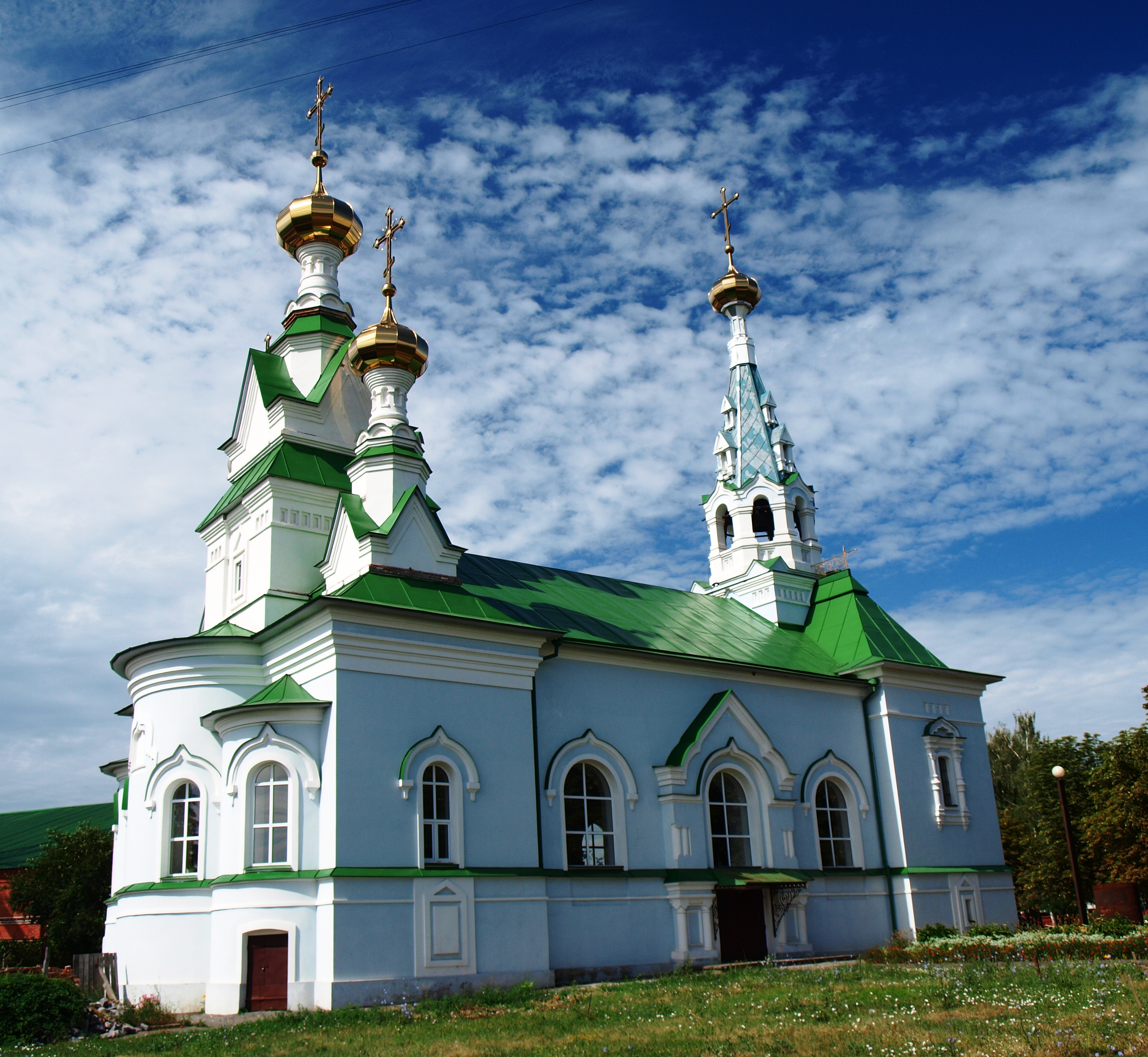 Lubny